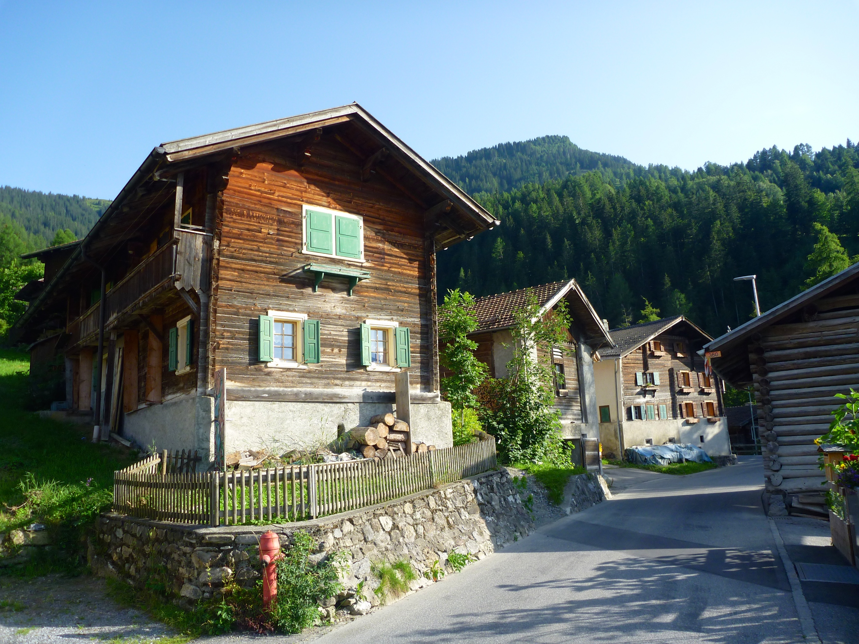 wooden houses and street through Inner-Praden, Switzerland